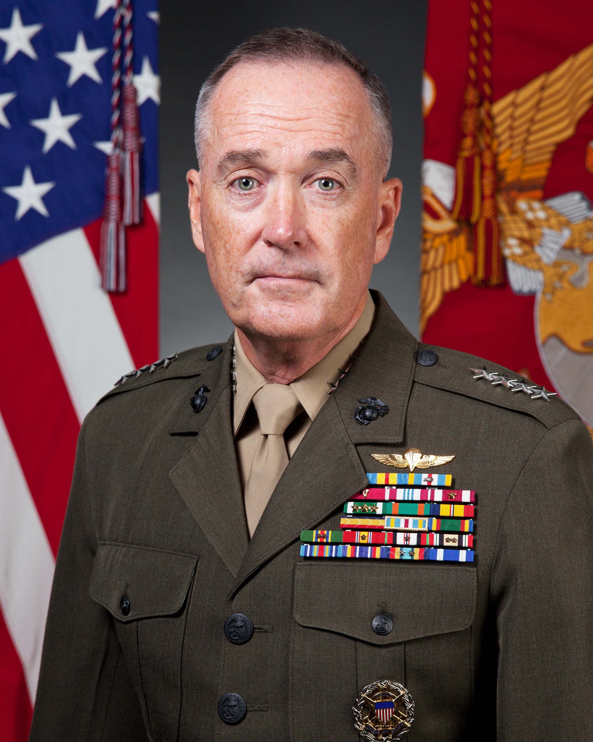 General Joseph F. Dunford, Jr., USMC 36th Commandant of the Marine Corps U.S. Marine Corps Gen. Joseph F. Dunford Jr., poses for command board portrait at the Pentagon, Sept. 19, 2014. (U.S. Marine Corps photo by Cpl. Michael C. Guinto / Released)